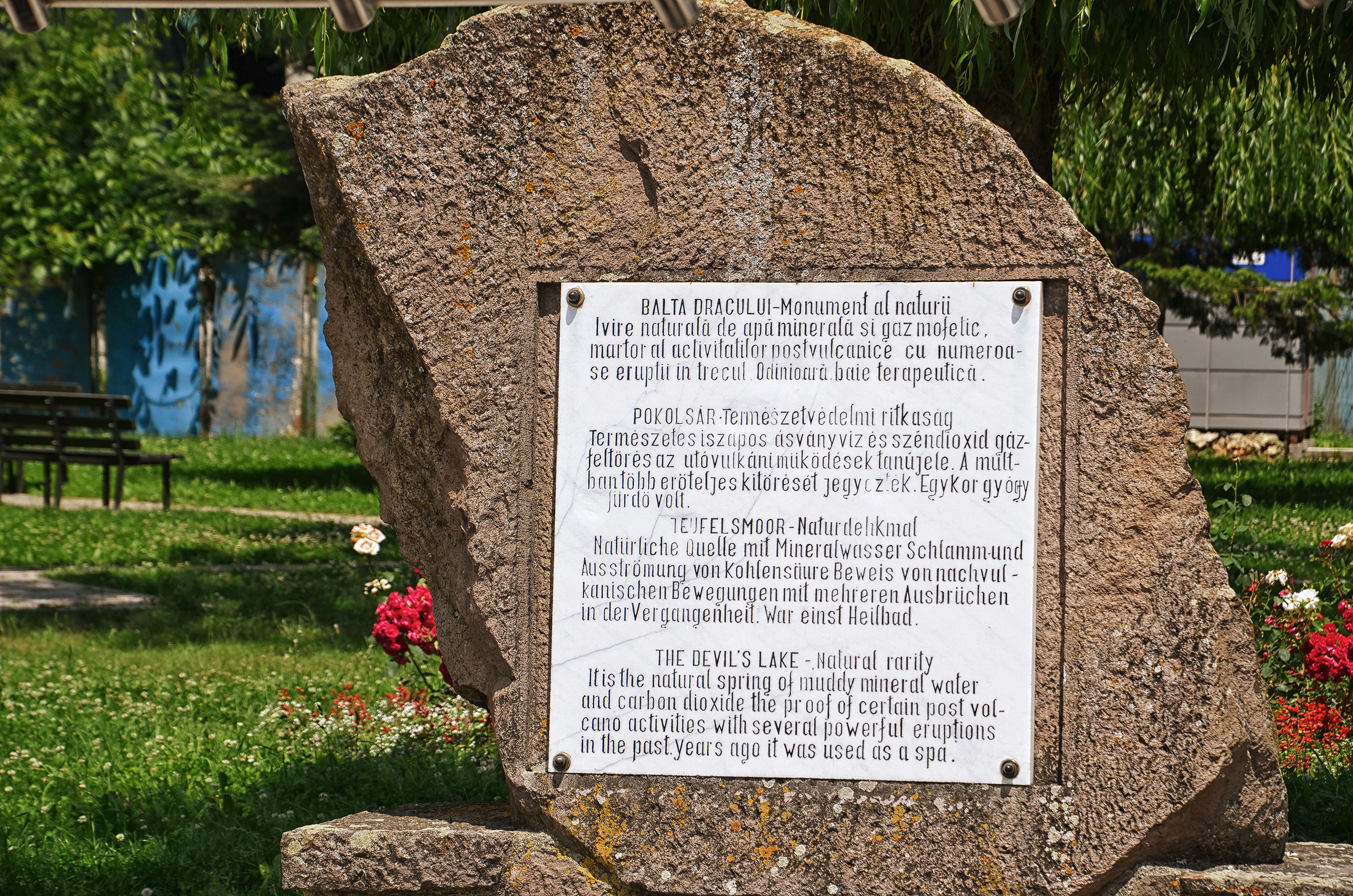 The information board of the Devil’s Lake in Covasna